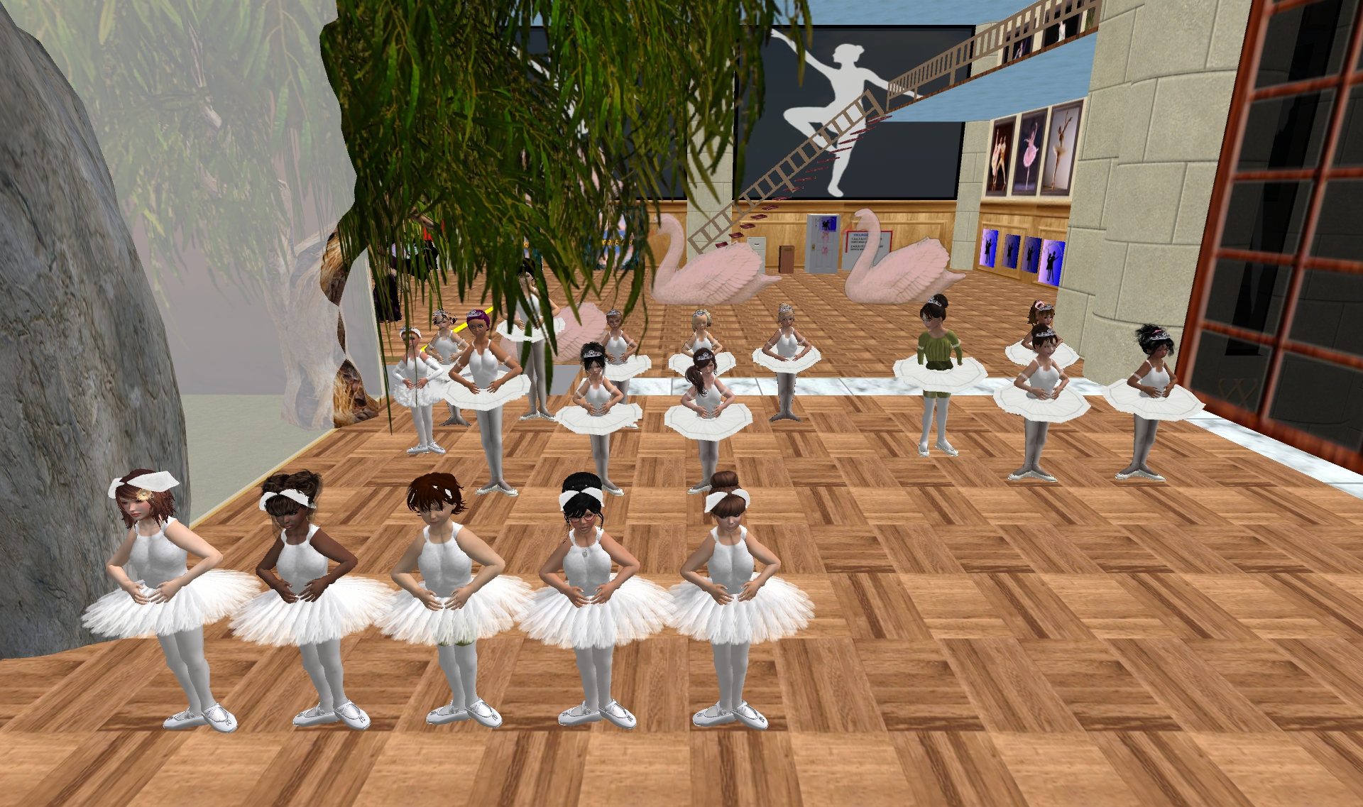 Dancers from Little Princess Ballet Academy (LPBA) in Second Life have lined up, waiting to go on stage for Swan Lake in May 2014.